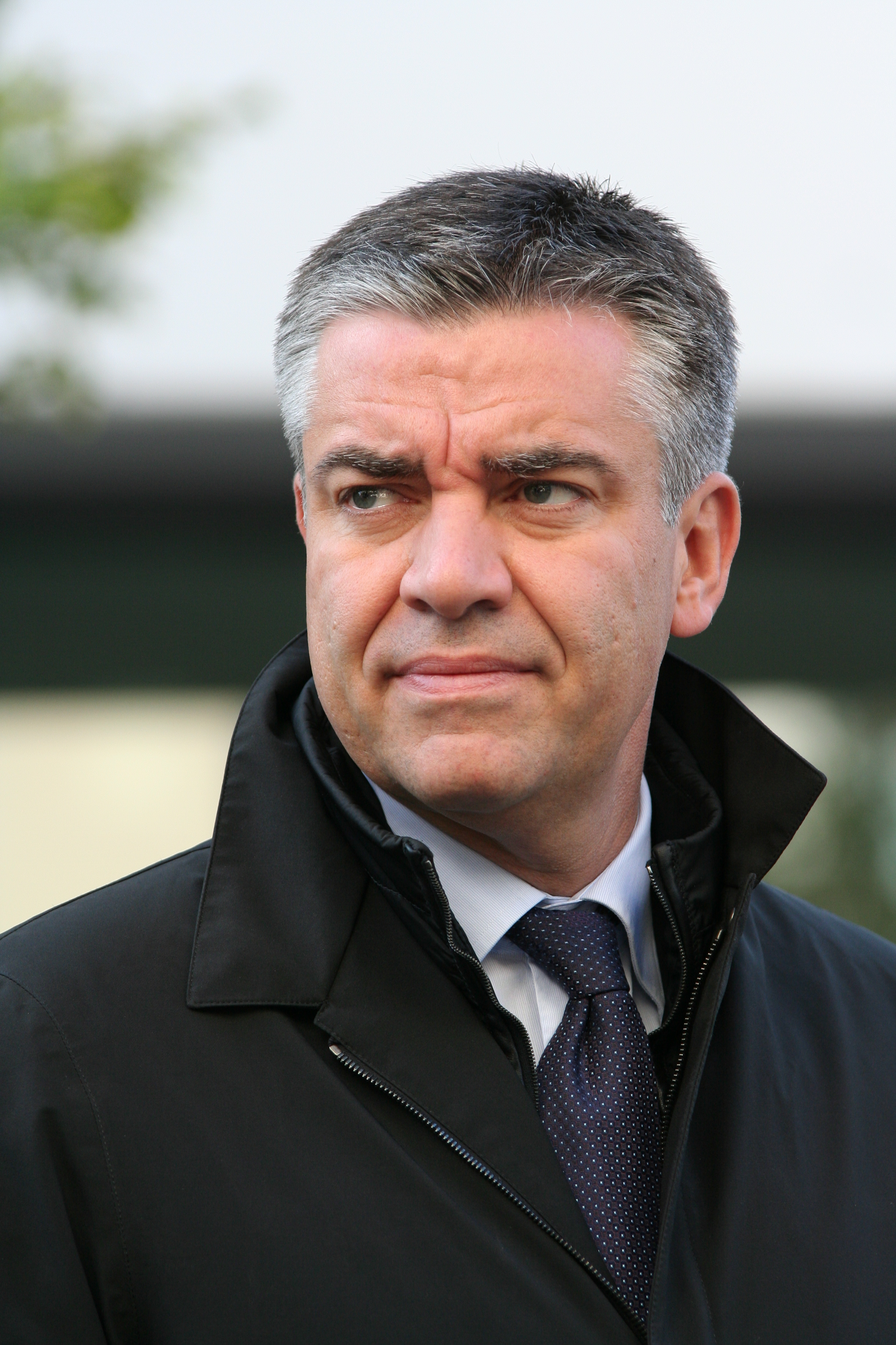 Frank Steffen at a election campaign in Berlin-Reinickendorf